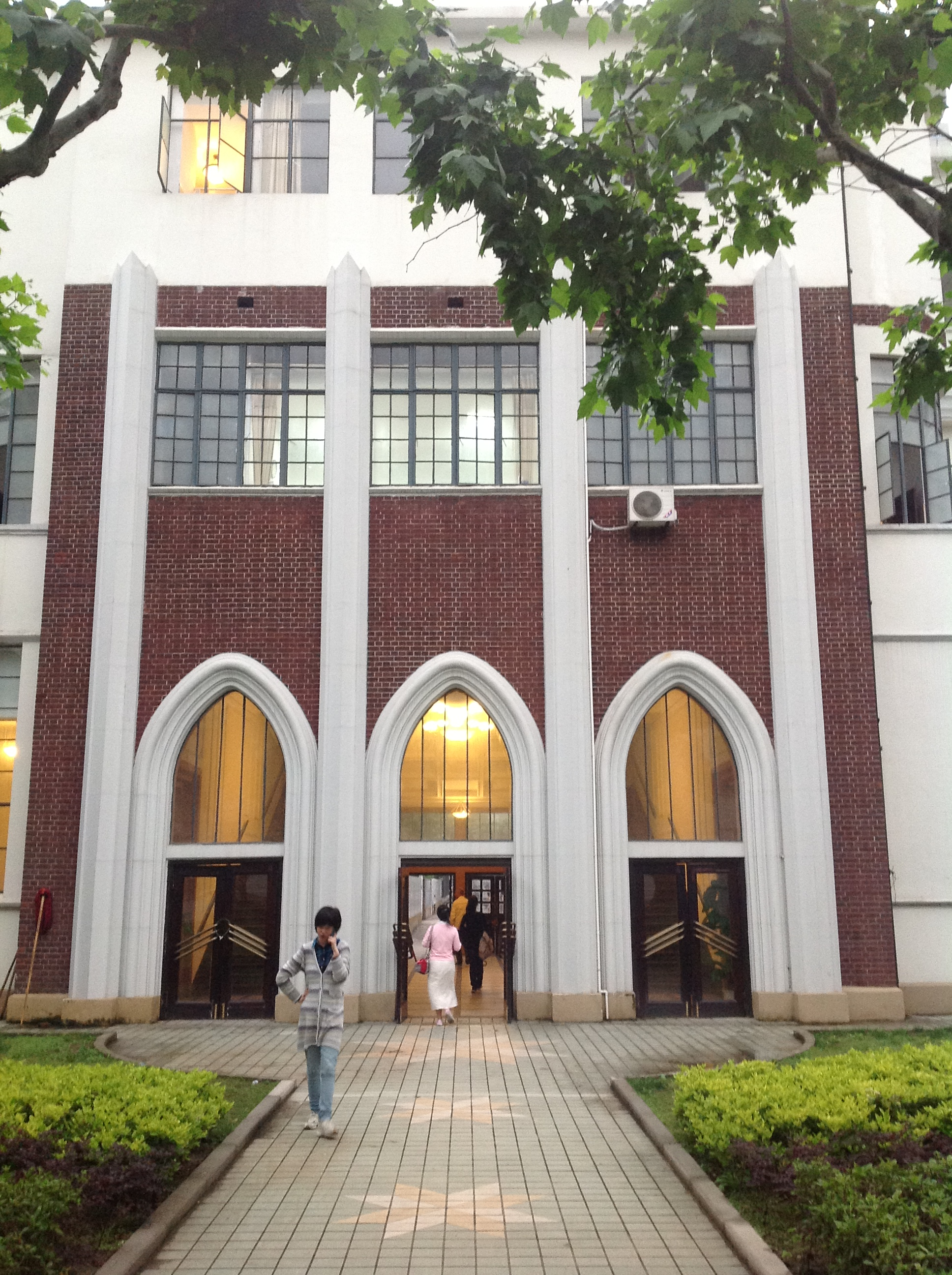 Back entrance of Gongchengguan in SJTU.